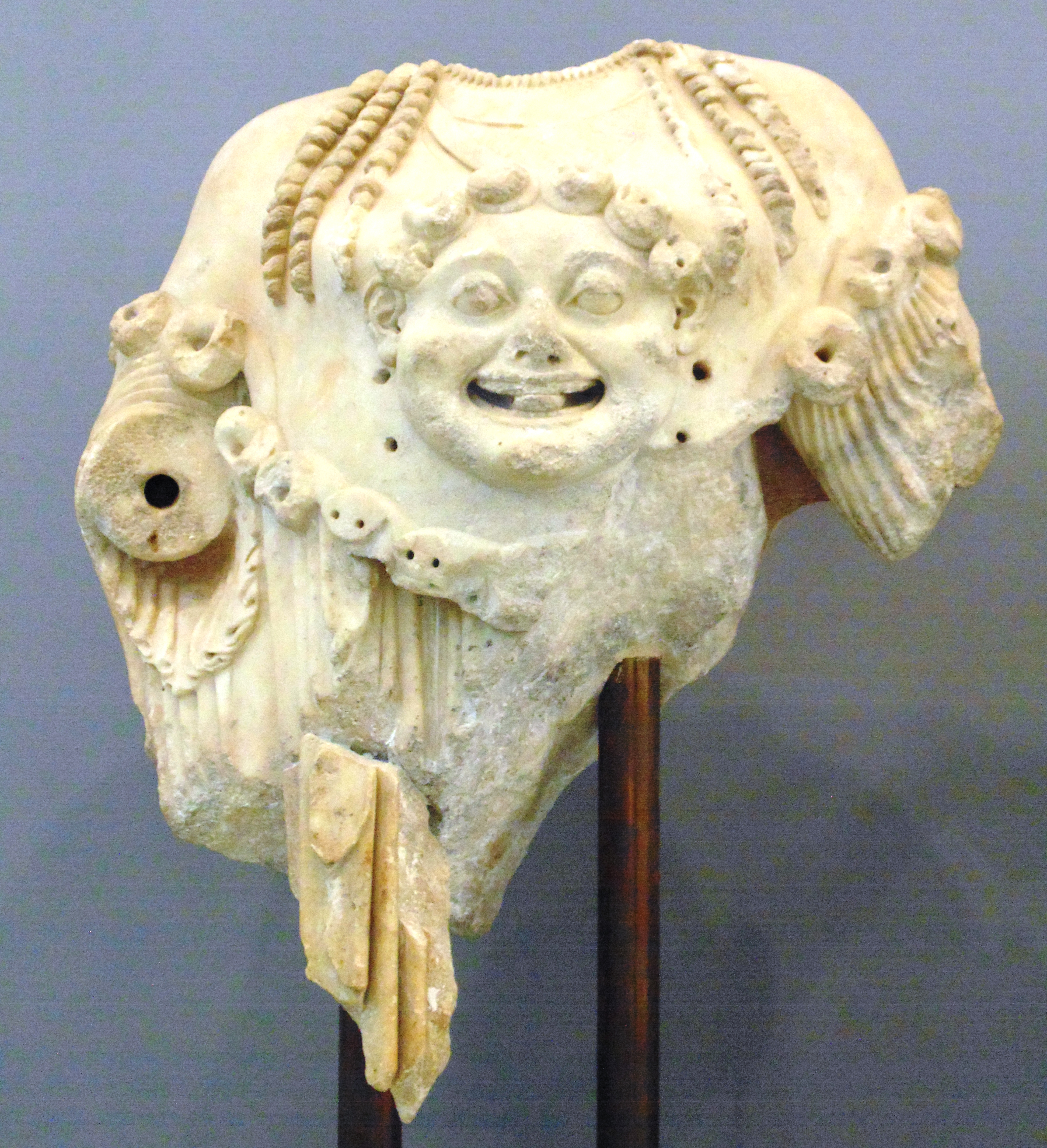 Collection of Archaeological Museum of Eretria